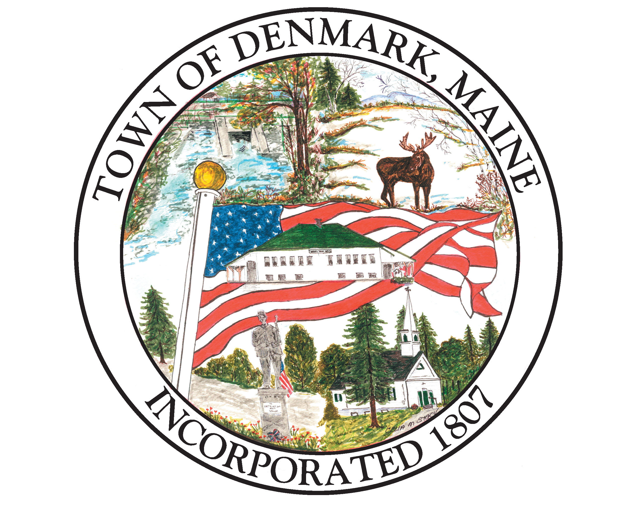 Denmark Seal - Denmark, Maine